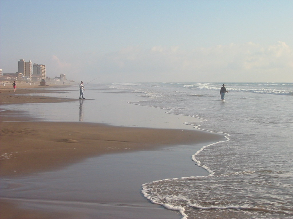 People enjoy the beaches of South Padre Island in a variety of ways.